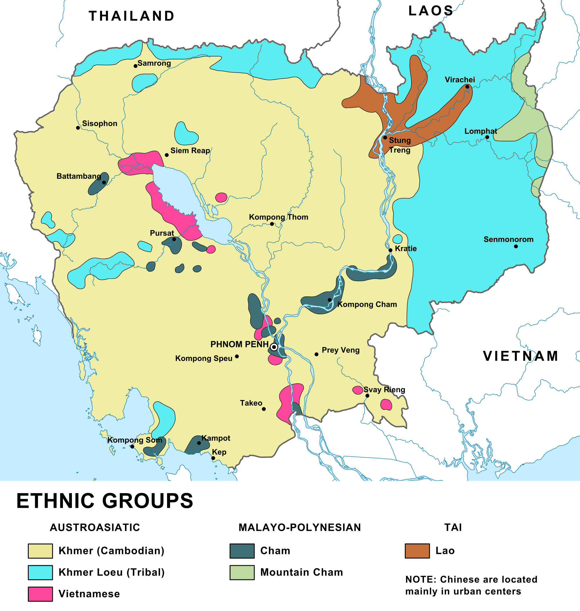 This map shows the ethnic groups of Cambodia.